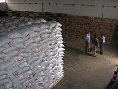 Credit: C. Hamlin/USAID. (2005)